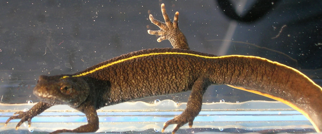 Female Italian Crested Newt Triturus carnifex from the Veluwe, this species has colonized the woods southwest of Apeldoorn.